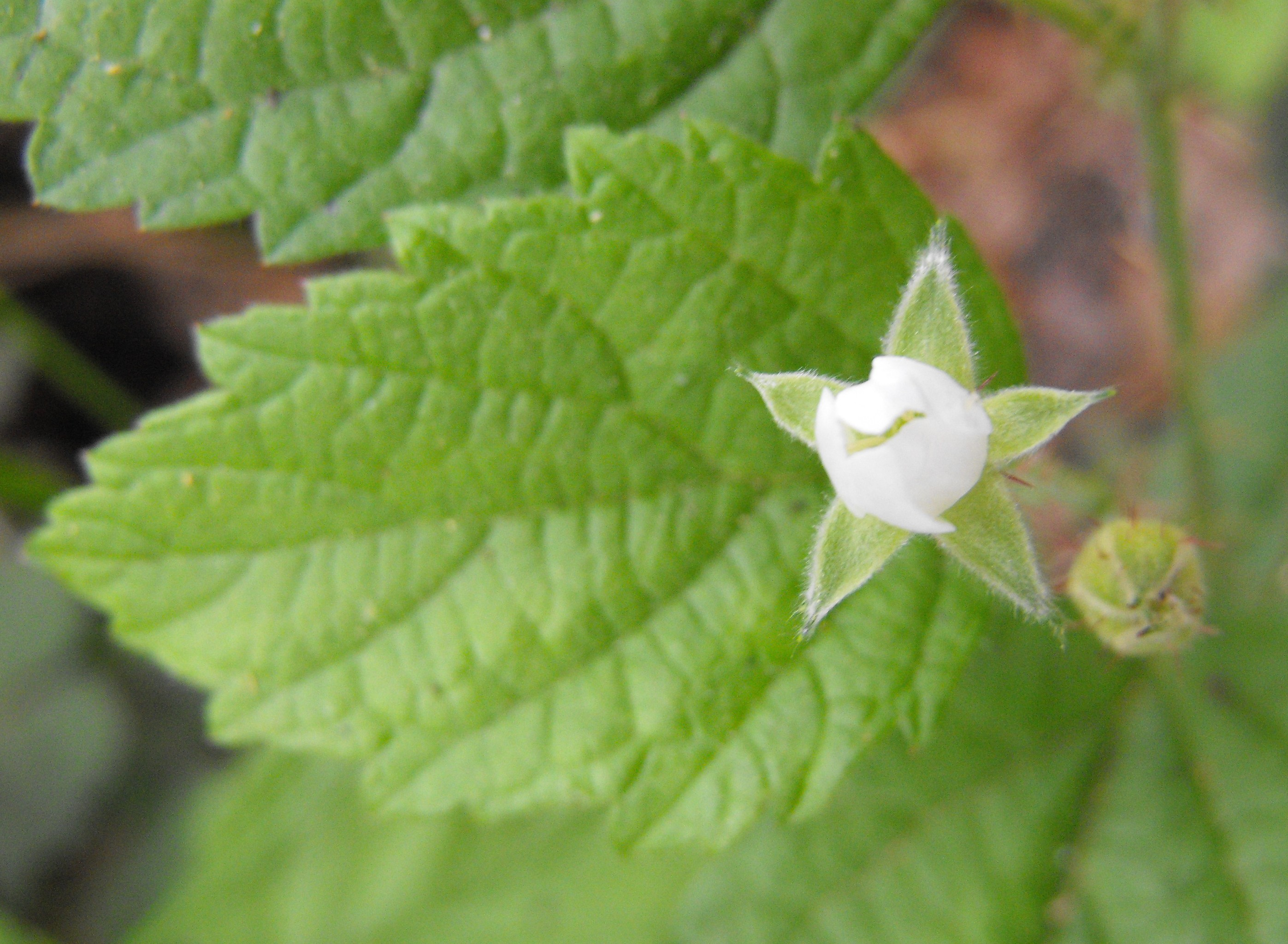 Rubus leucodermis var. bernardinus at Rancho Santa Ana Botanic Garden in Claremont, California, USA. Identified by sign.